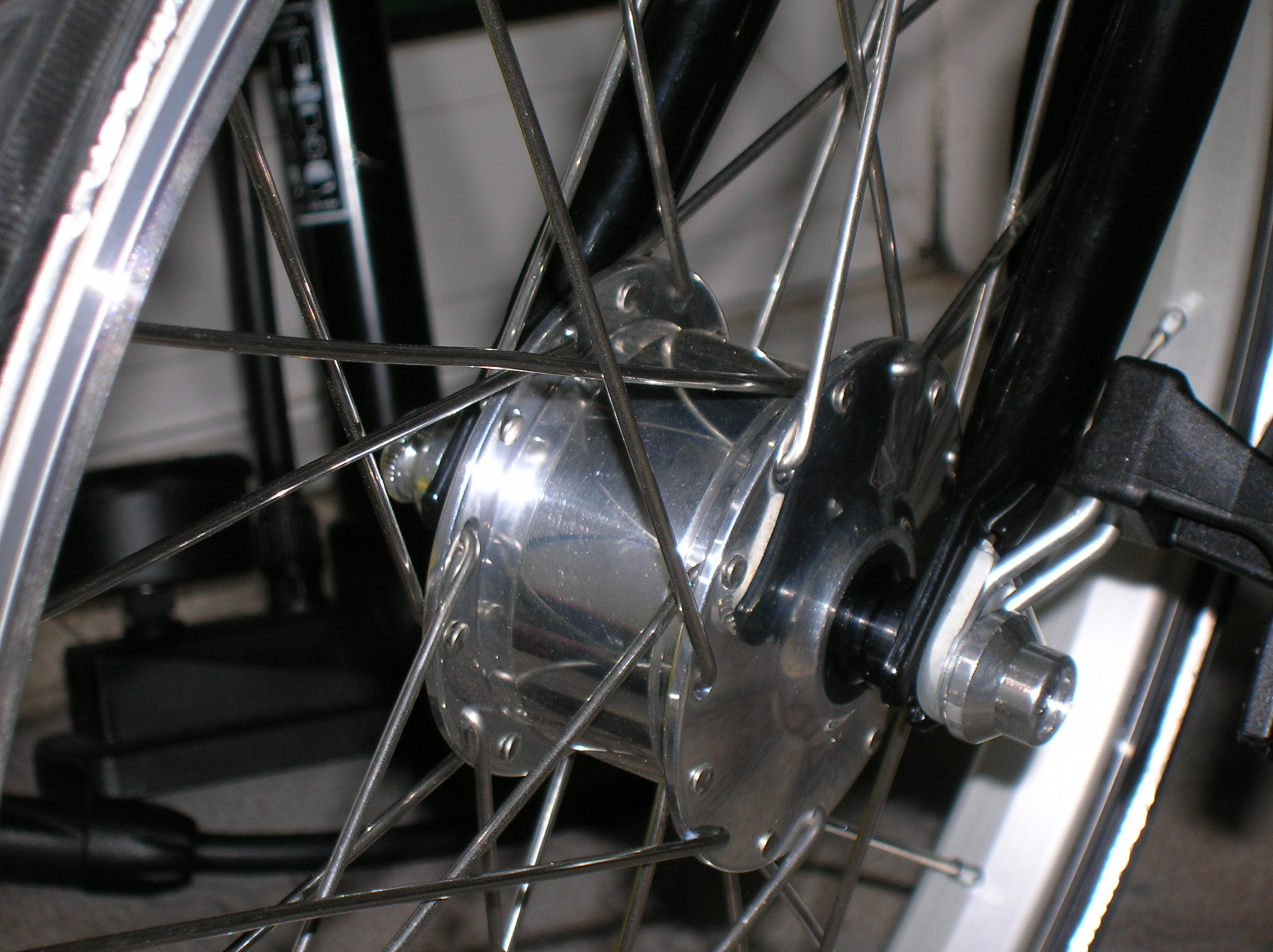 Schmidt Original Nabendynamo hub dynamo fitted to a Brompton Bicycle.